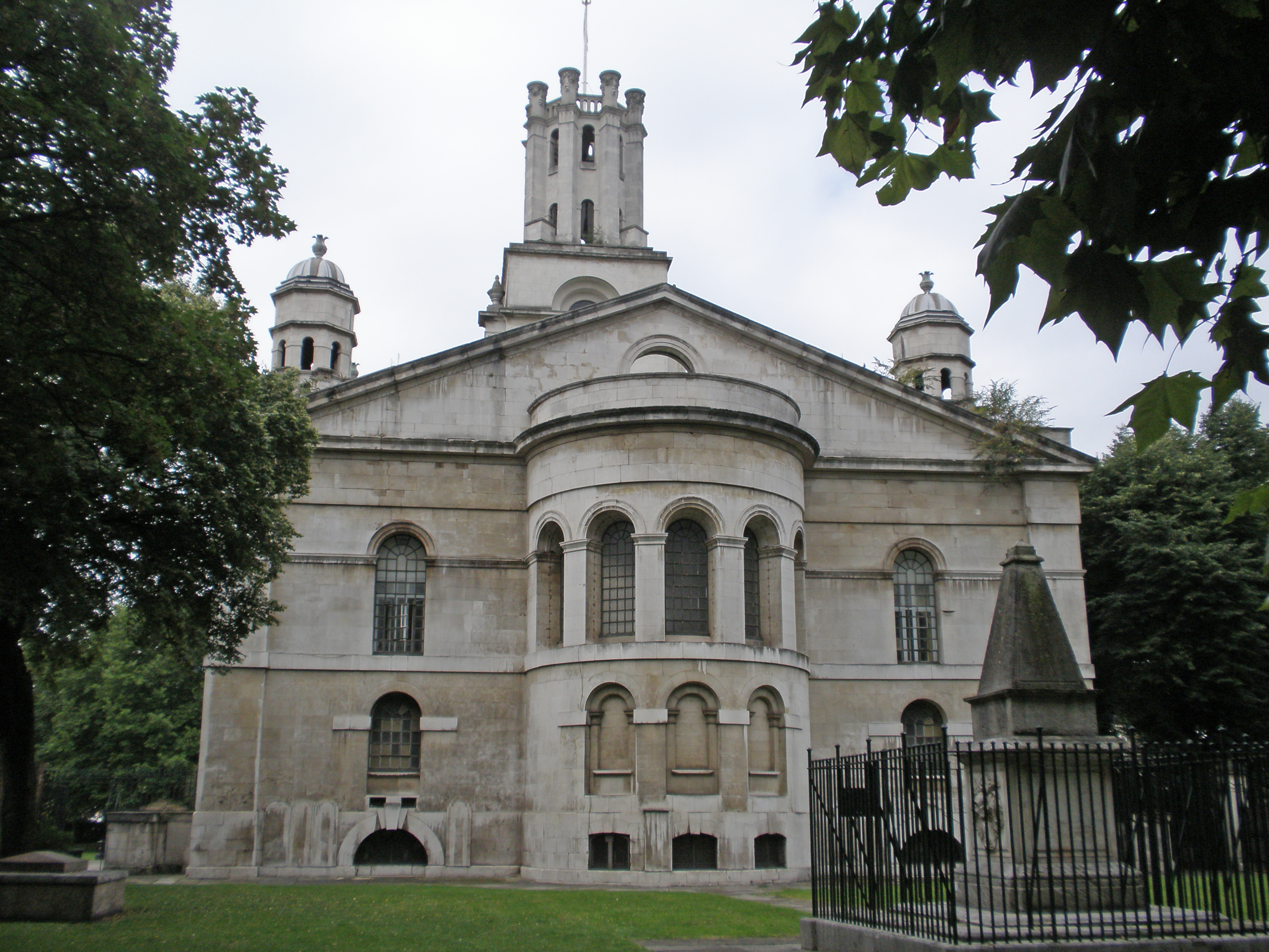 St George-in-the-East is an Anglican Church dedicated to Saint George and one of six Hawksmoor churches in London, England. It was built from 1714 to 1729, with funding from the 1711 Act of Parliament. The name of the church was also the parish for the surrounding area, until subsumed into Metropolitan Borough of Stepney and abolished in 1927. The church was hit by a bomb during the Second World War Blitz on London's docklands in May 1941. The original interior was destroyed by the fire, but the walls and distinctive "pepper-pot" towers stayed up. In 1964 a modern church interior was constructed inside the existing walls, and a new flat built under each corner tower. Hawksmoor, who worked with Wren and Vanburgh, has been 'rediscovered' in recent years. His style is innovative and eclectic. Some have portrayed his churches as centres of gloom and mystery, full of occult and morbid energies and pagan symbols, linked to ancient lay lines and to murders in Whitechapel and on the notorious Ratcliffe Highway (which now links the City and Canary Wharf).